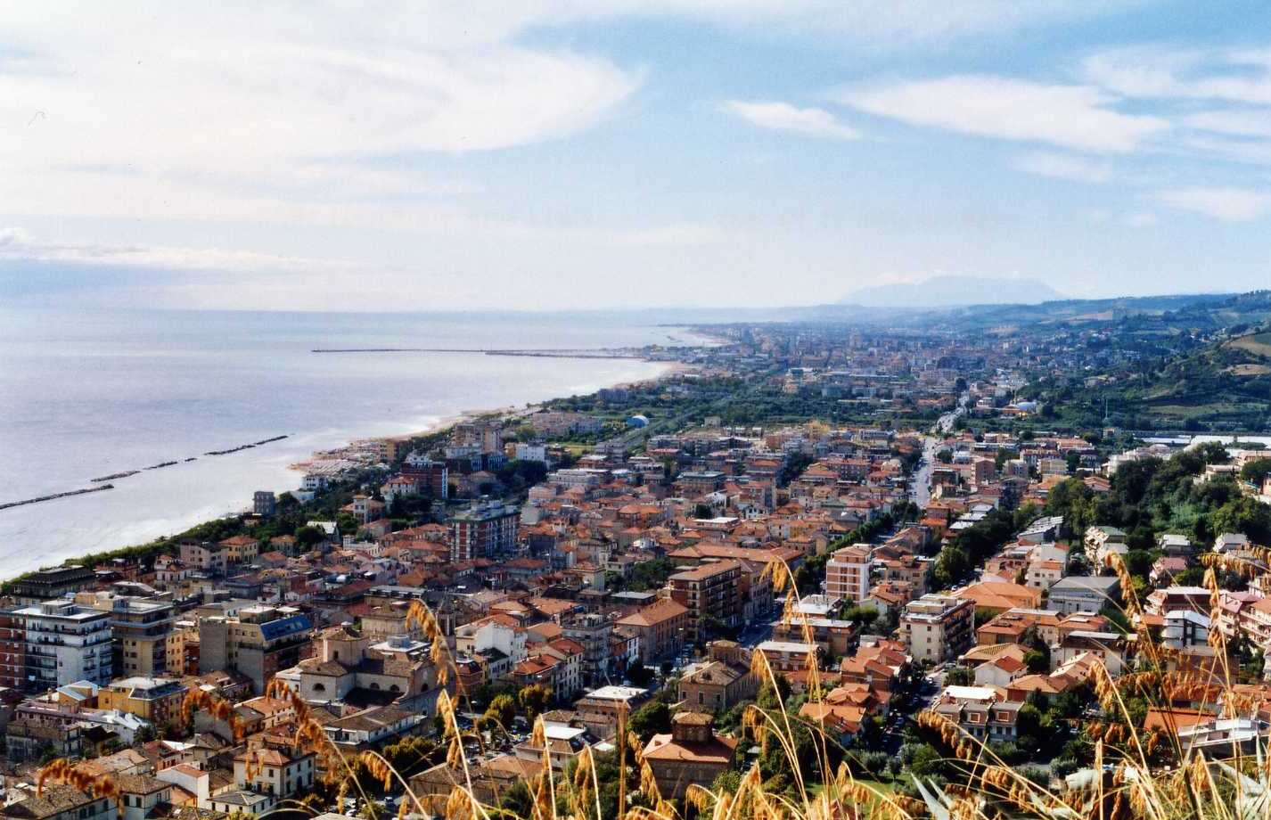 Panoramic wiew of Grottammare(AP) Italy